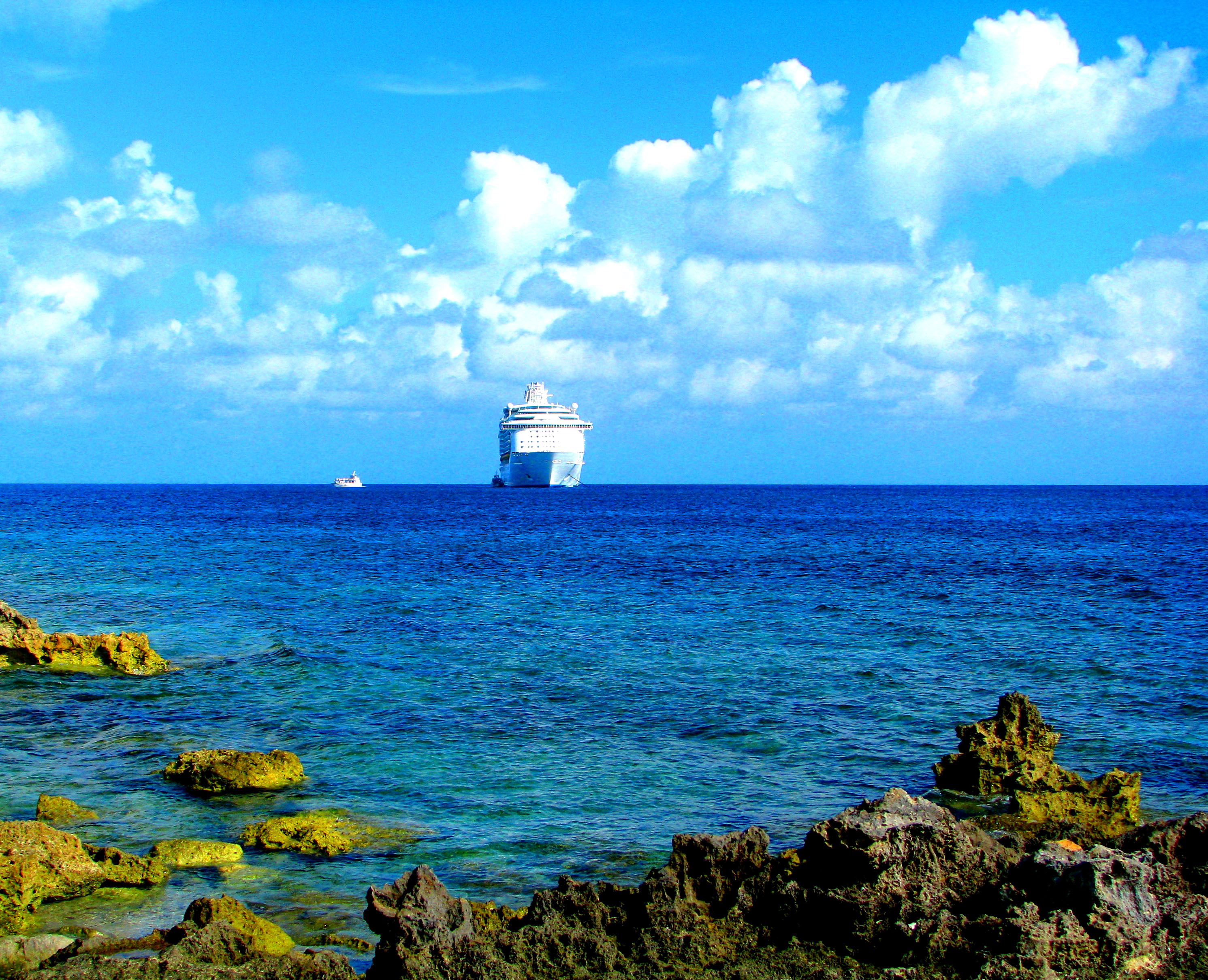 Mariner of the Seas and Green Rocks, Caribbean sea